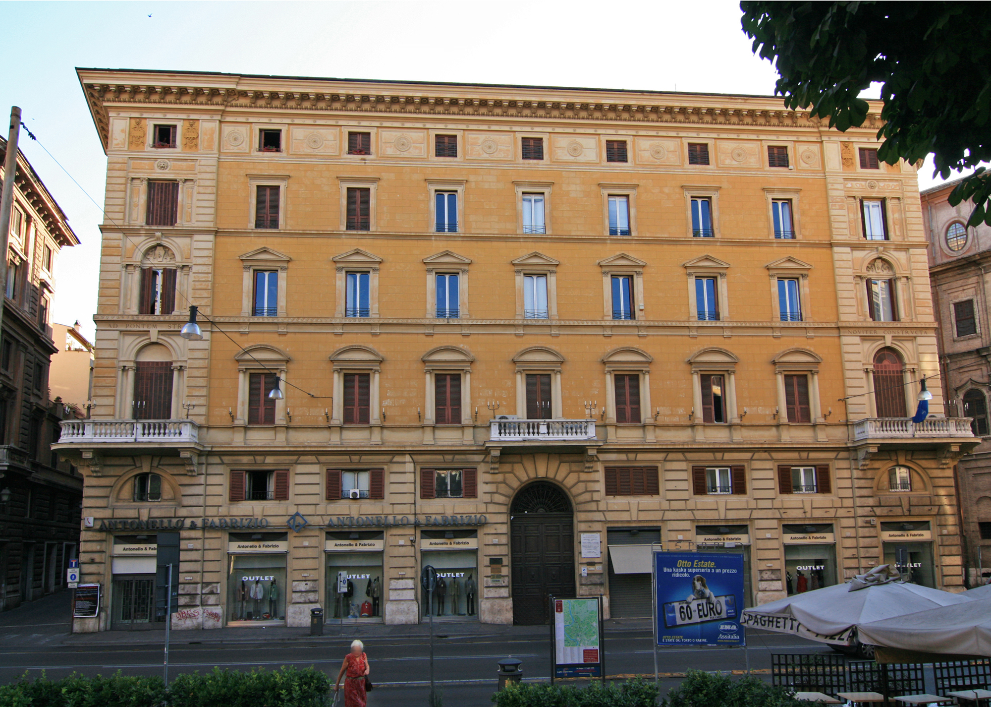 Corso Vittori Emanuele II no. 251-253, Rome.